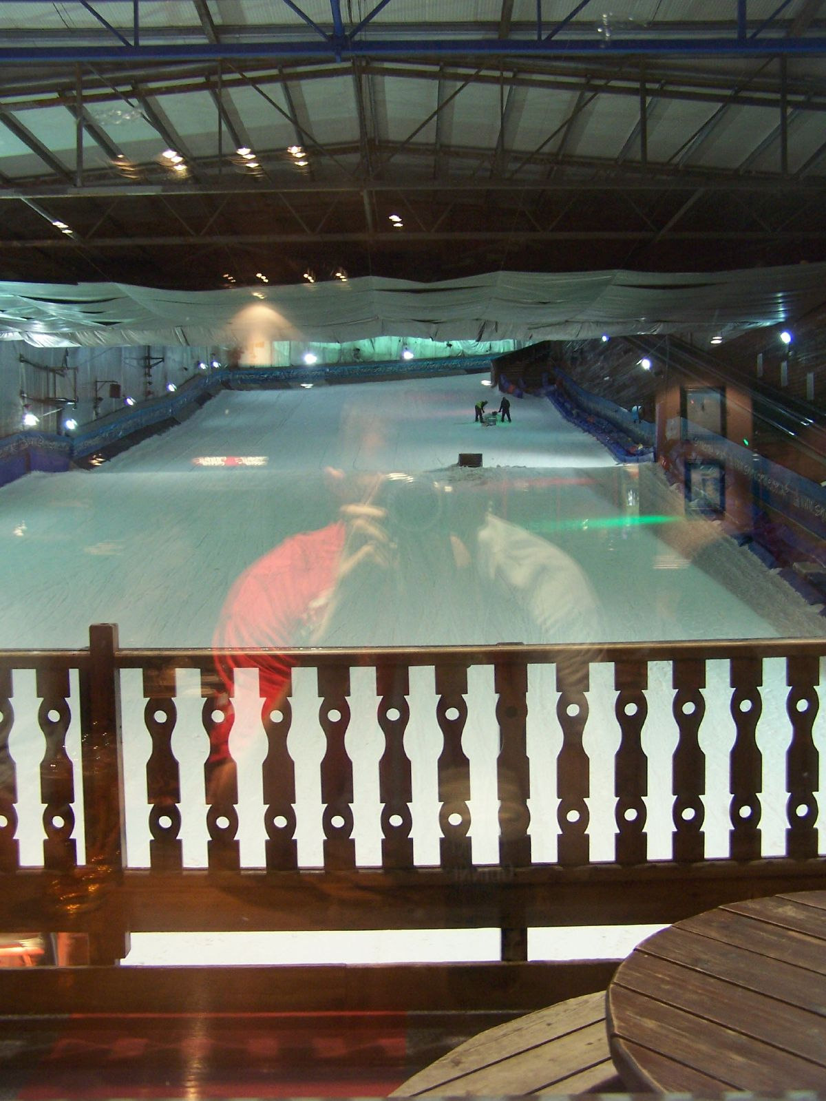 View from the Aspen Bar, Snowdome, Tamworth.